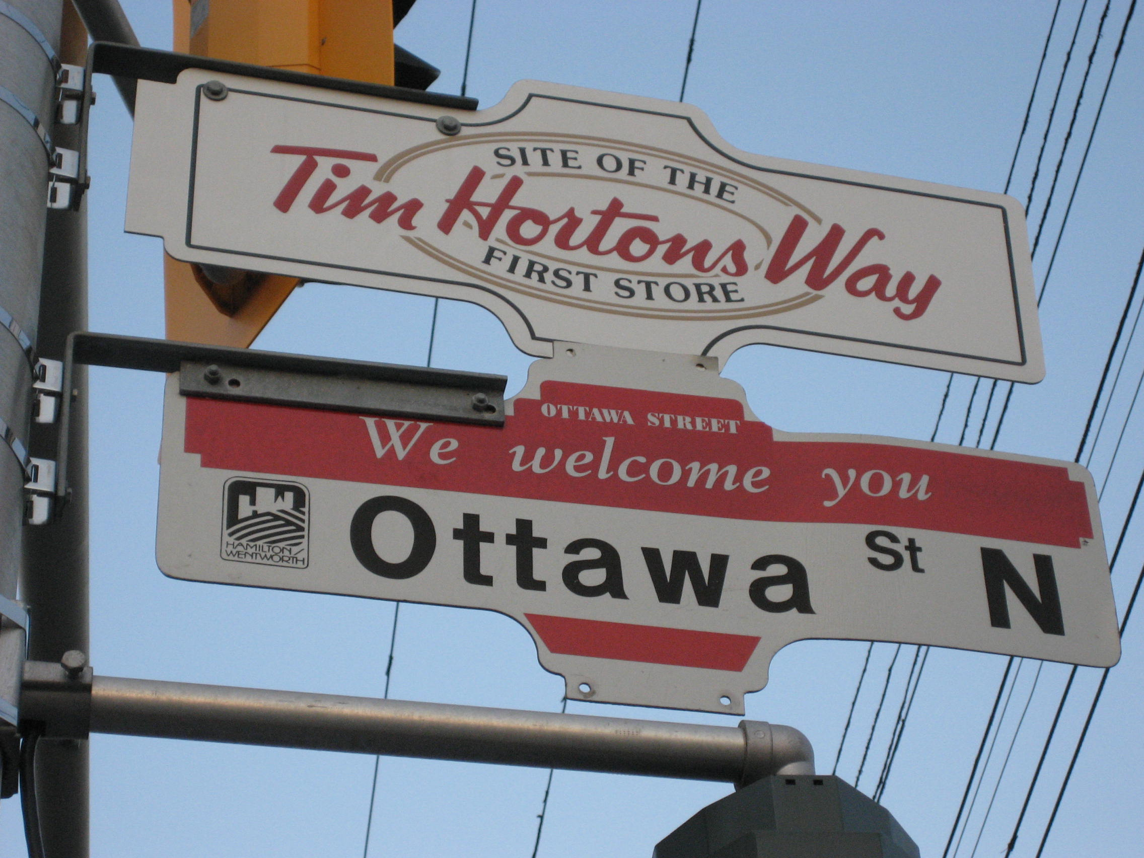 Ottawa Street North, street sign, Hamilton, Ontario